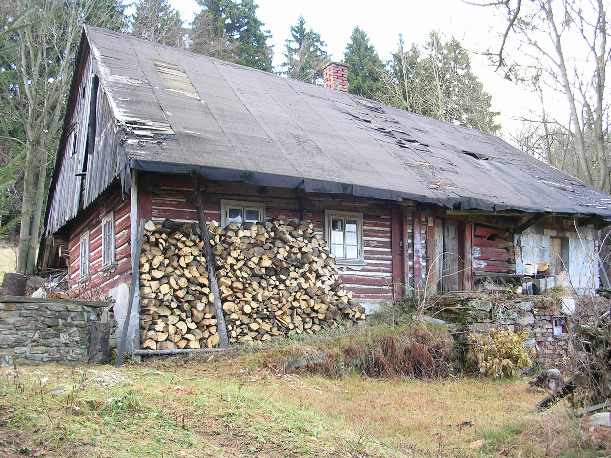 Paseky nad Jizerou, the Czech Republic.